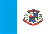 Flags of the city of Araçaí, Minas Gerais, Brazil.